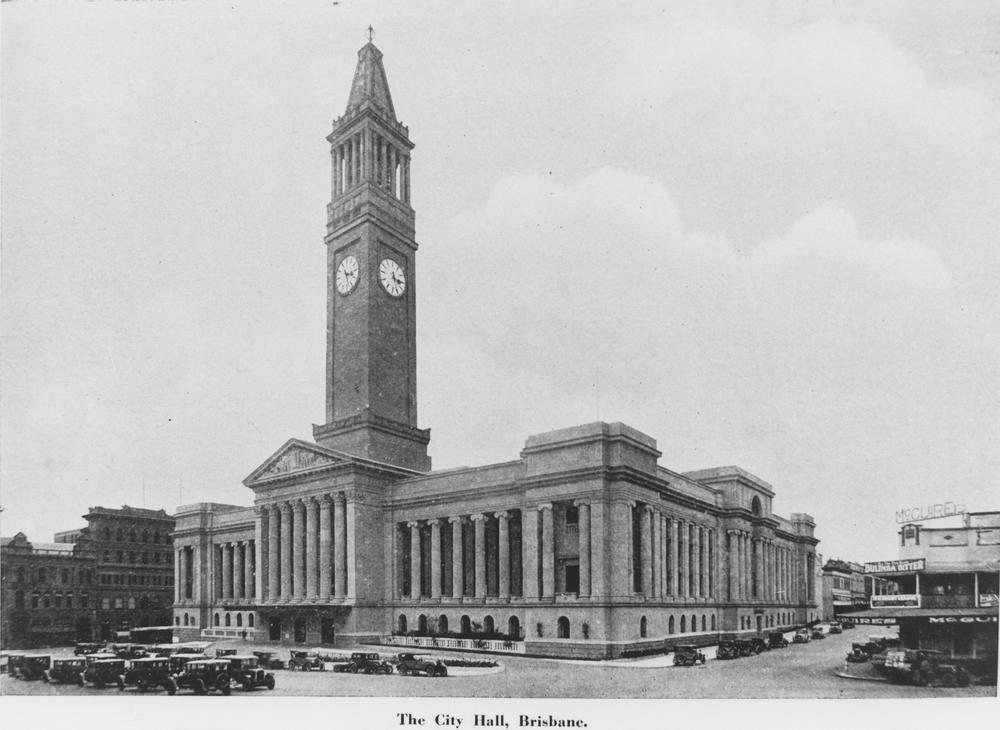 City Hall in Brisbane around ca. 1930. Taxis parked on Albert Square in front of the Brisbane City Hall, Queensland.